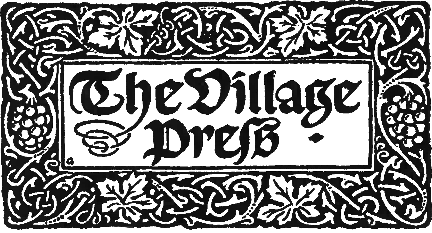 The Village Press stamp